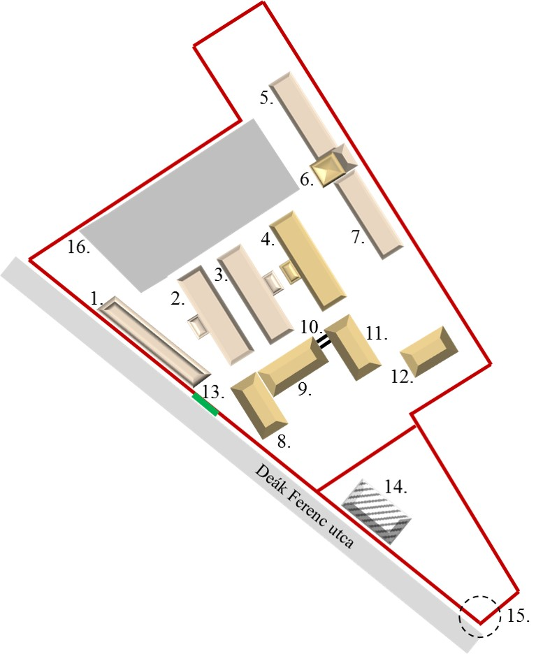 The schematic map of Kistarcsa Camp